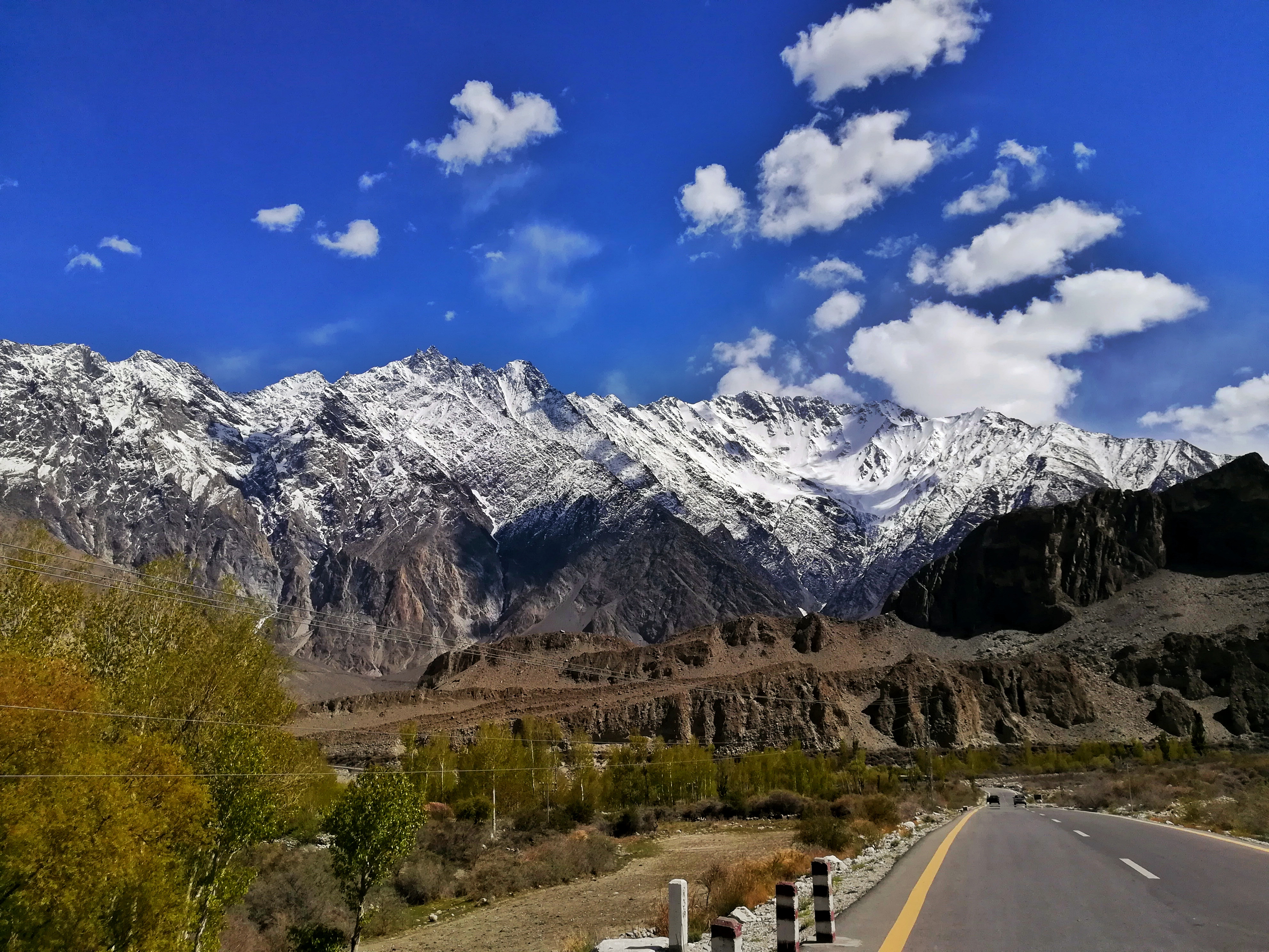 Hunza view